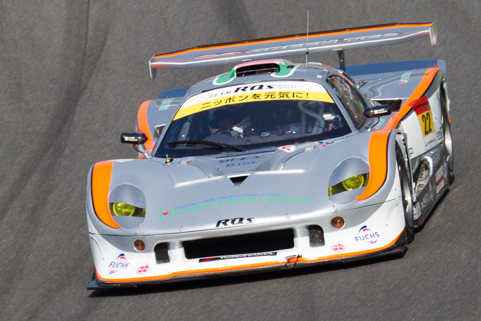 Super GT 2012 Rd.4 SUGO GT 300km: Hisashi Wada (R'Qs Motorsports) driving the Vemac 350R.